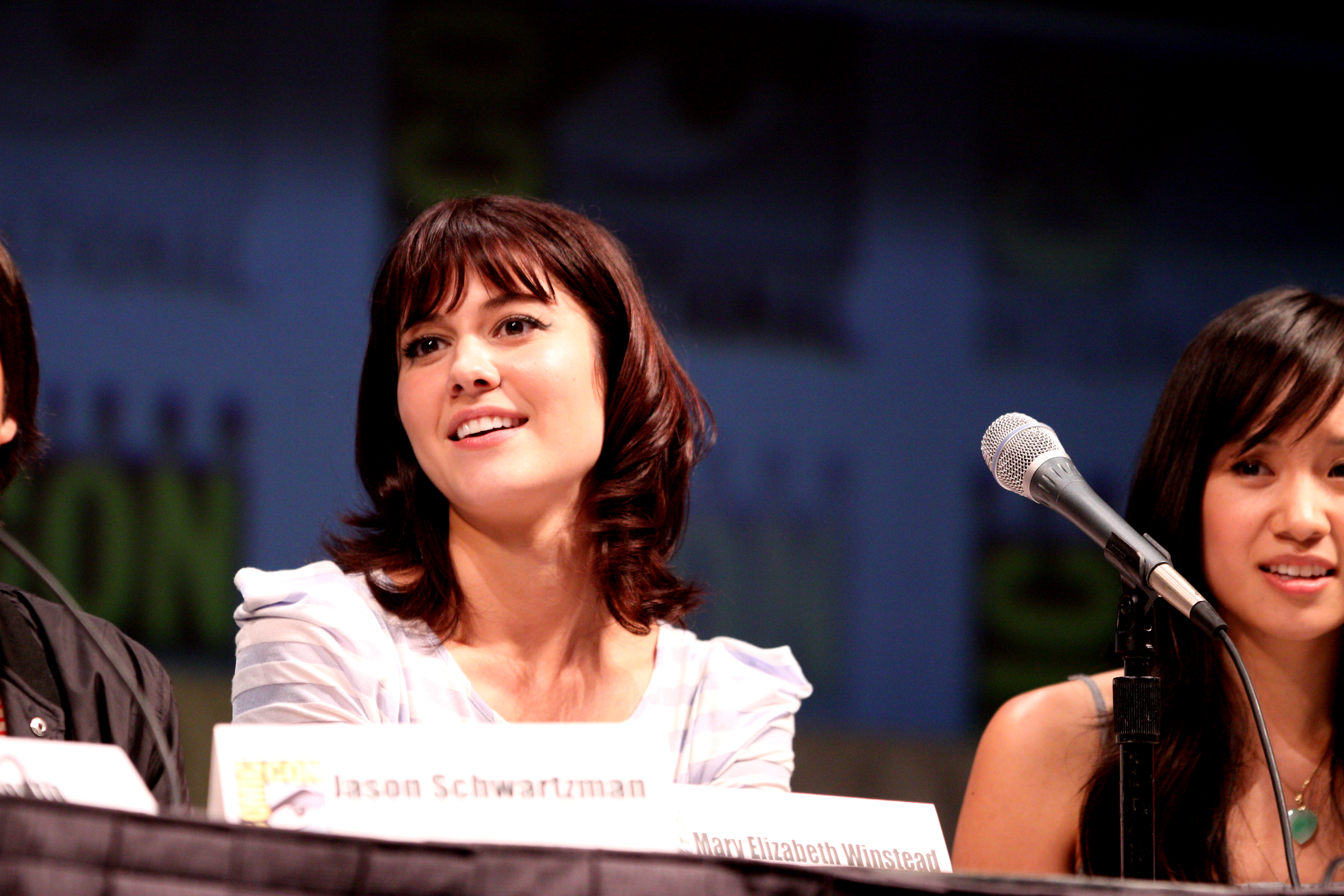 Actress Mary Elizabeth Winstead on the Scott Pilgrim vs. the World panel at the 2010 San Diego Comic Con in San Diego, California.